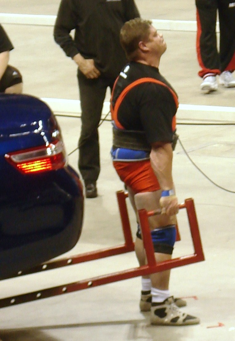 Mark Philippi (a strength athlete from the United States) at the Deadlift.